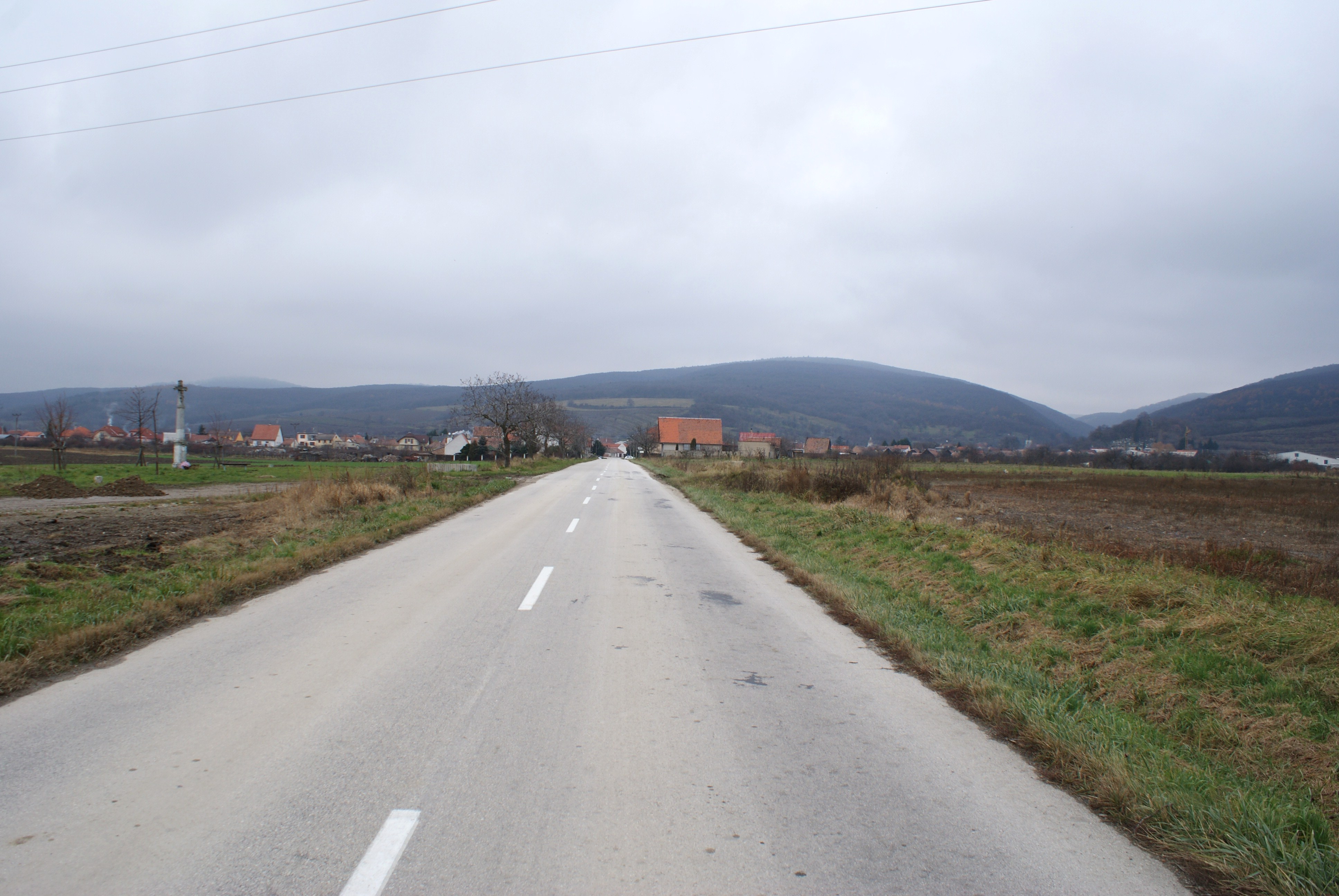 Doľany, a village in Pezinok district, Slovakia, general view.